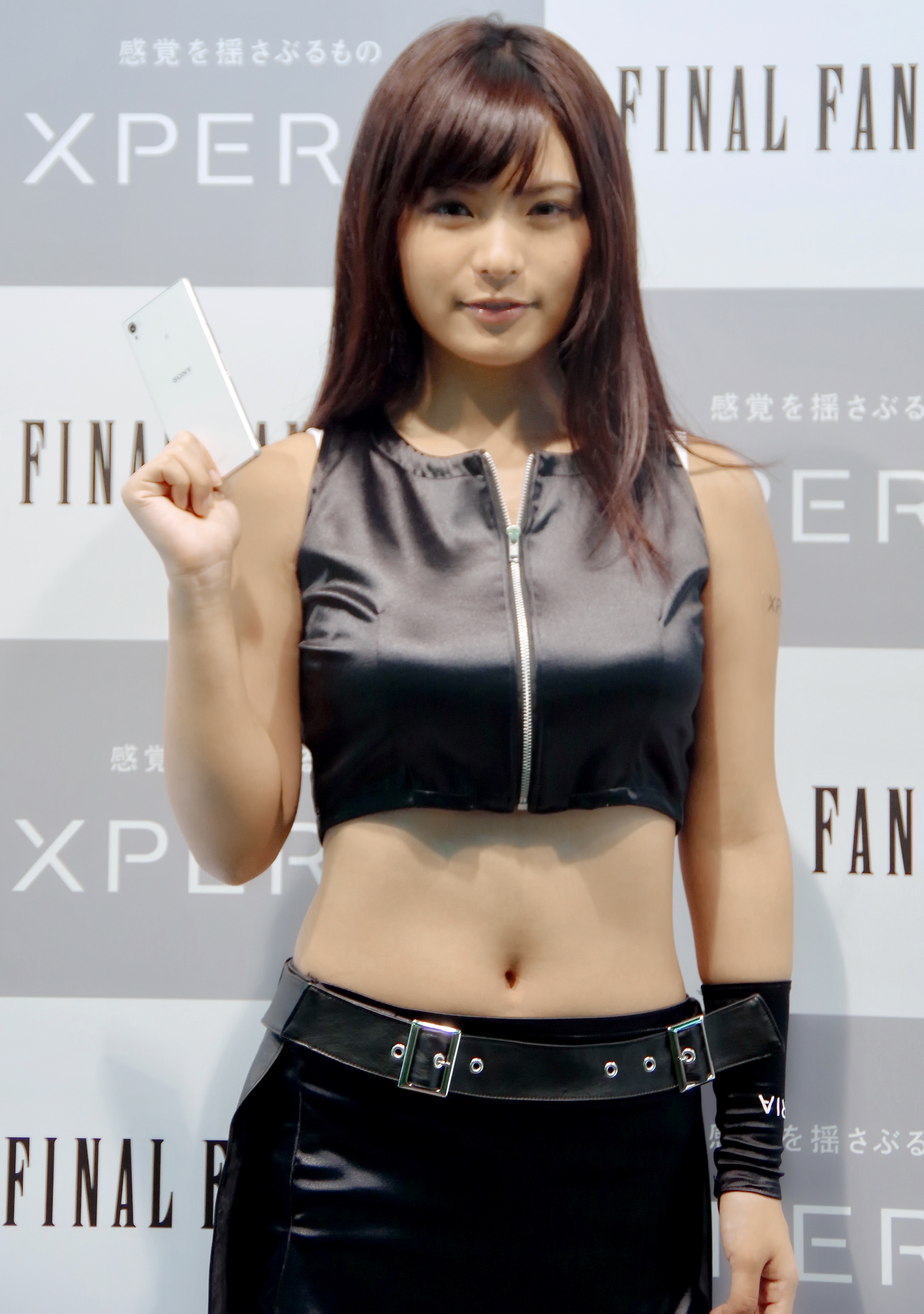 Miduki Hoshina with Tifa Lockhart cosplay in Tokyo Game Show 2014. Cropped and slightly adjusted from